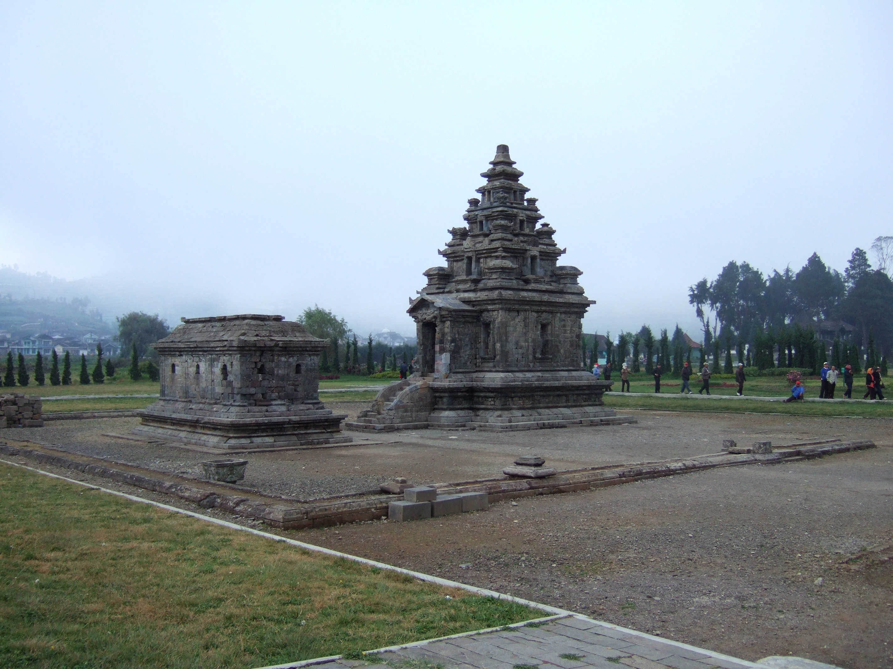 Arjuna (left) and Semar (right) temples, Dieng Plateau, Central Java, Indonesia